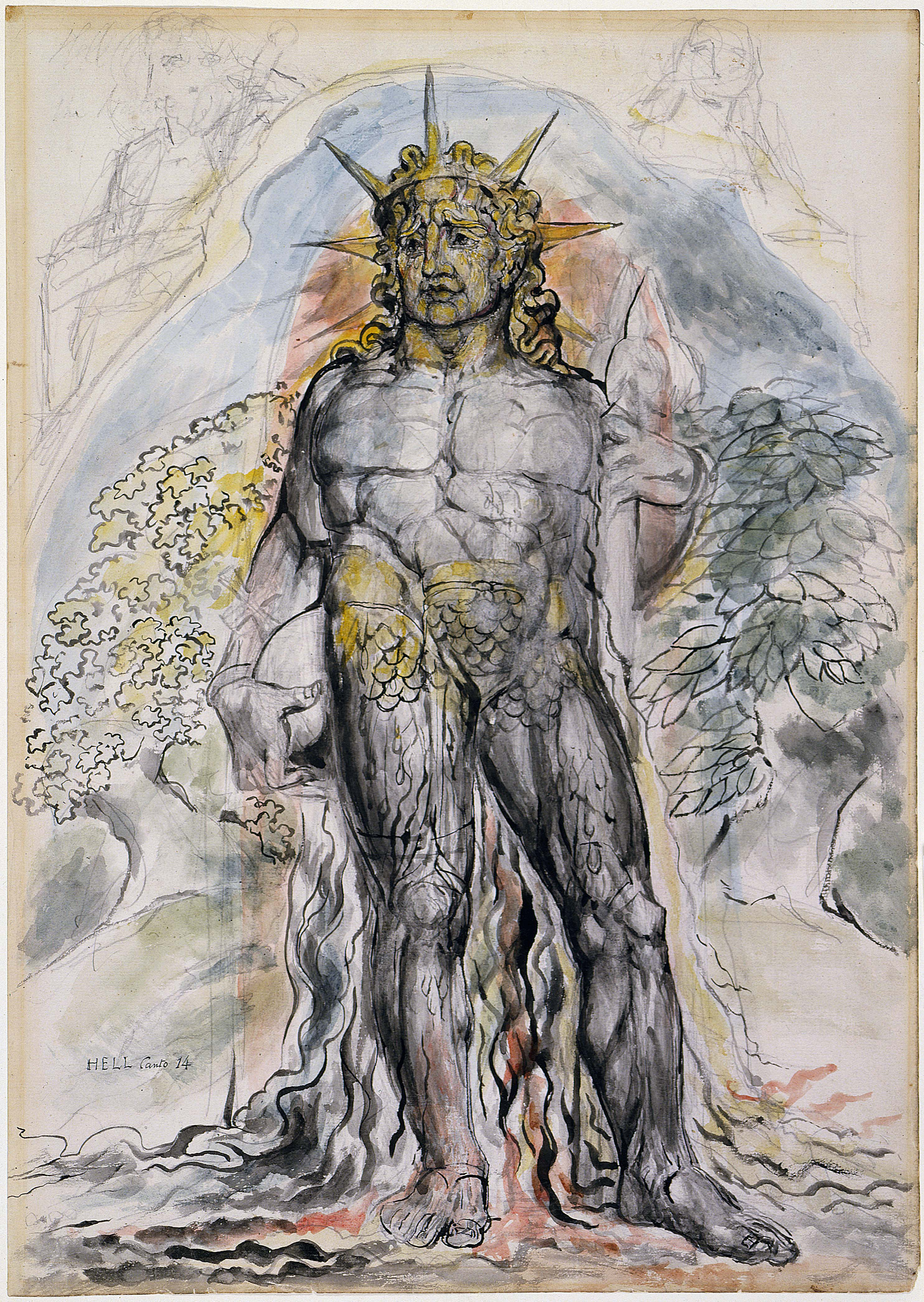 Illustrations to Dante's Divine Comedy object 30 Butlin 812-28 rectoThe Symbolic Figure of the Course of Human History Described by Virgil